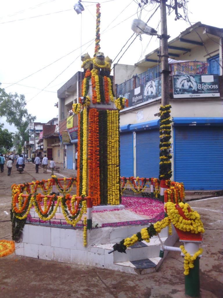 Jhanda Chowk was established in this town in remembrance of India's Independence.